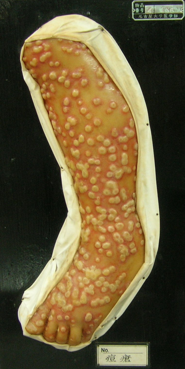 Smallpox Moulage. Loc: Nagoya University Museum, Chikusa-ku, Nagoya city, Aichi Prefecture, Japan. 天然痘のムラージュ 撮影場所 愛知県名古屋市千種区・名古屋大学博物館